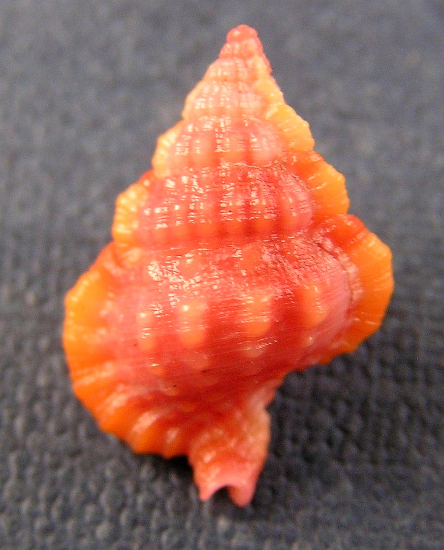 Gyrineum roseum (Reeve, 1844), a triton snail from the family Ranellidae; Philippines